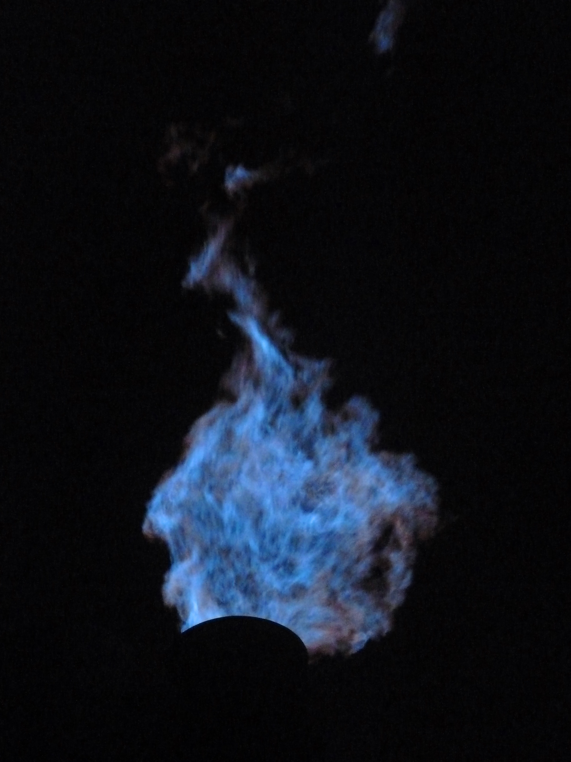 Flame from the combustion of blast furnace gas at a flare. This pale blue flame can only be seen at night.